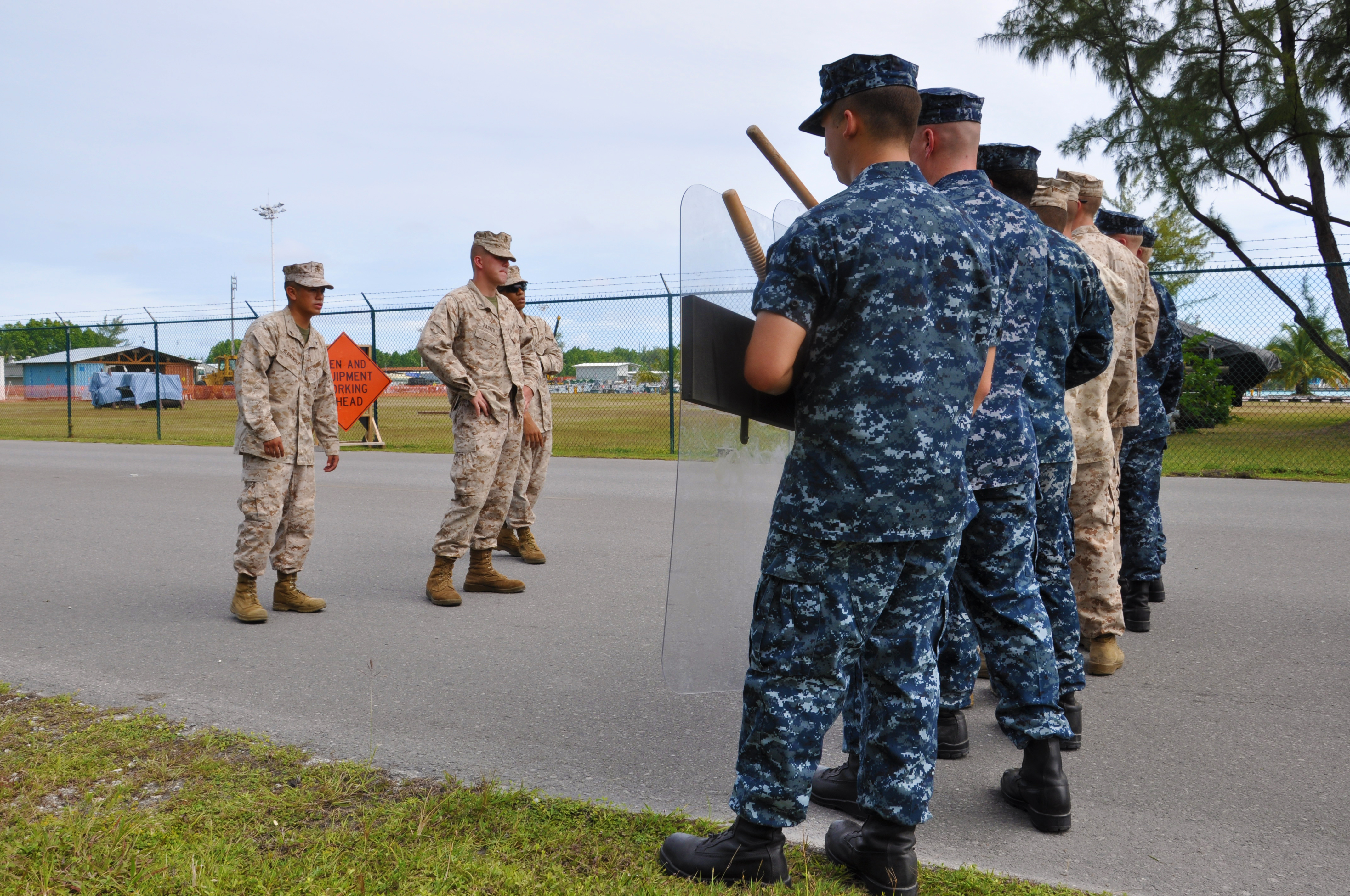 DIEGO GARCIA (July 10, 2010) Marines of Fleet Anti-Terrorism Security Team Pacific (FASTPAC) gives training to Diego Garcia security personnel on proper riot controlling formations, movements and procedures. The training included self-defense, entry control point procedures and various weapon handling. (U.S. Navy photo by Mass Communication Specialist Seaman Christopher S. Johnson/Released)